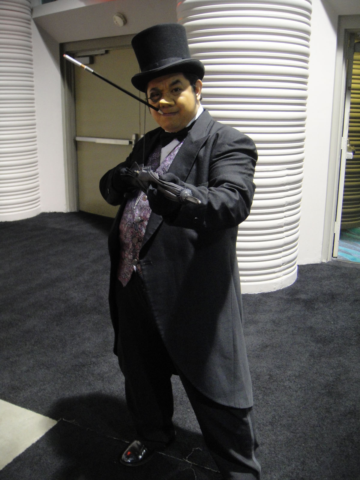 photo 2011 Pop Culture Geek taken by Doug Kline If you're interested in higher resolution versions of my images, contact me via my profile page.